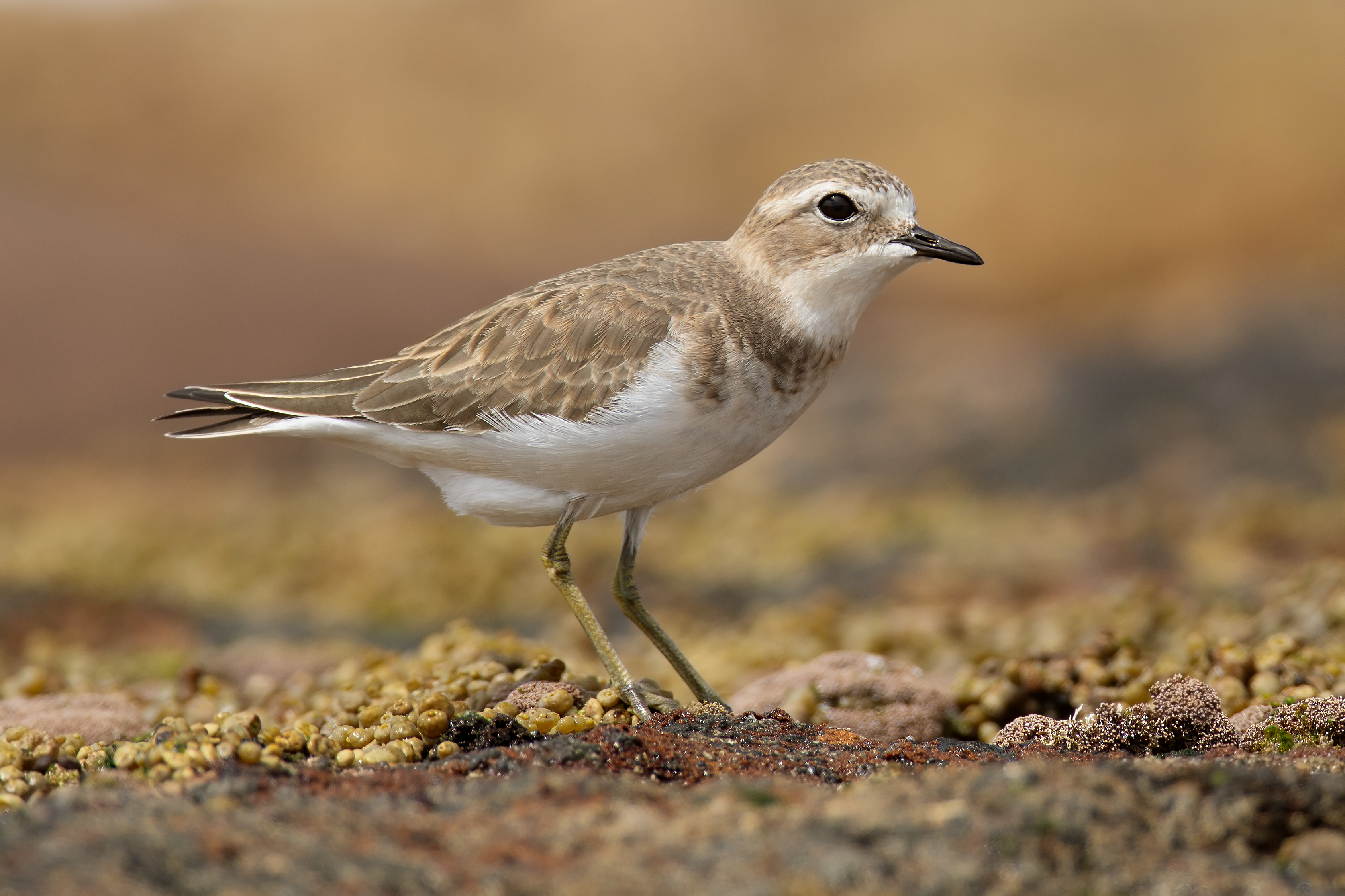 Double-banded Plover (Charadrius bicinctus) non-breeding plumage, Boat Harbour, New South Wales, Australia